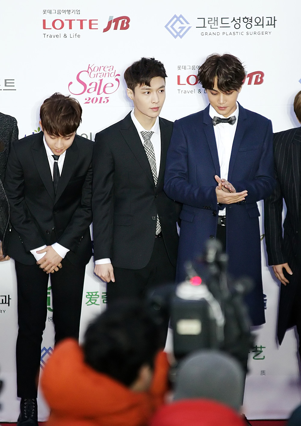 EXO at Seoul Music Awards on January 22, 2015.